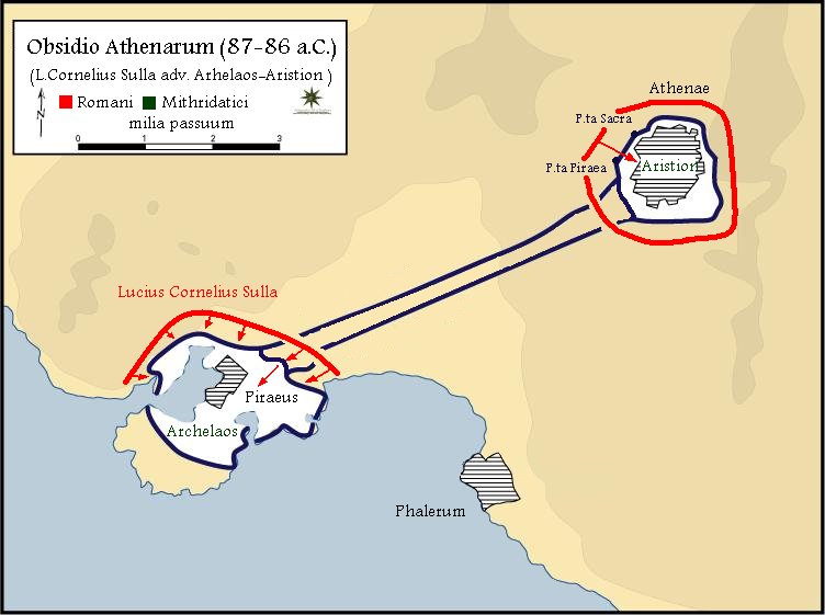 The Walls protectection Athens during the Silla's siege of 87-86 B.C.